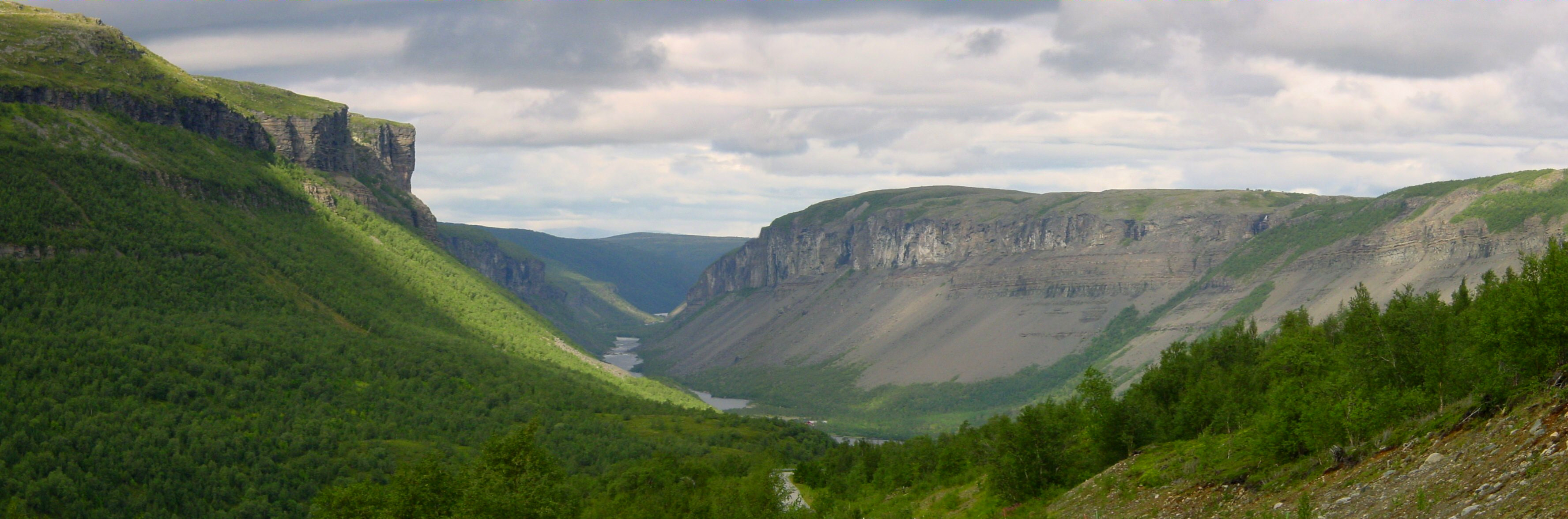 Sautso Canyon near Alta, Finnmark, Norway.